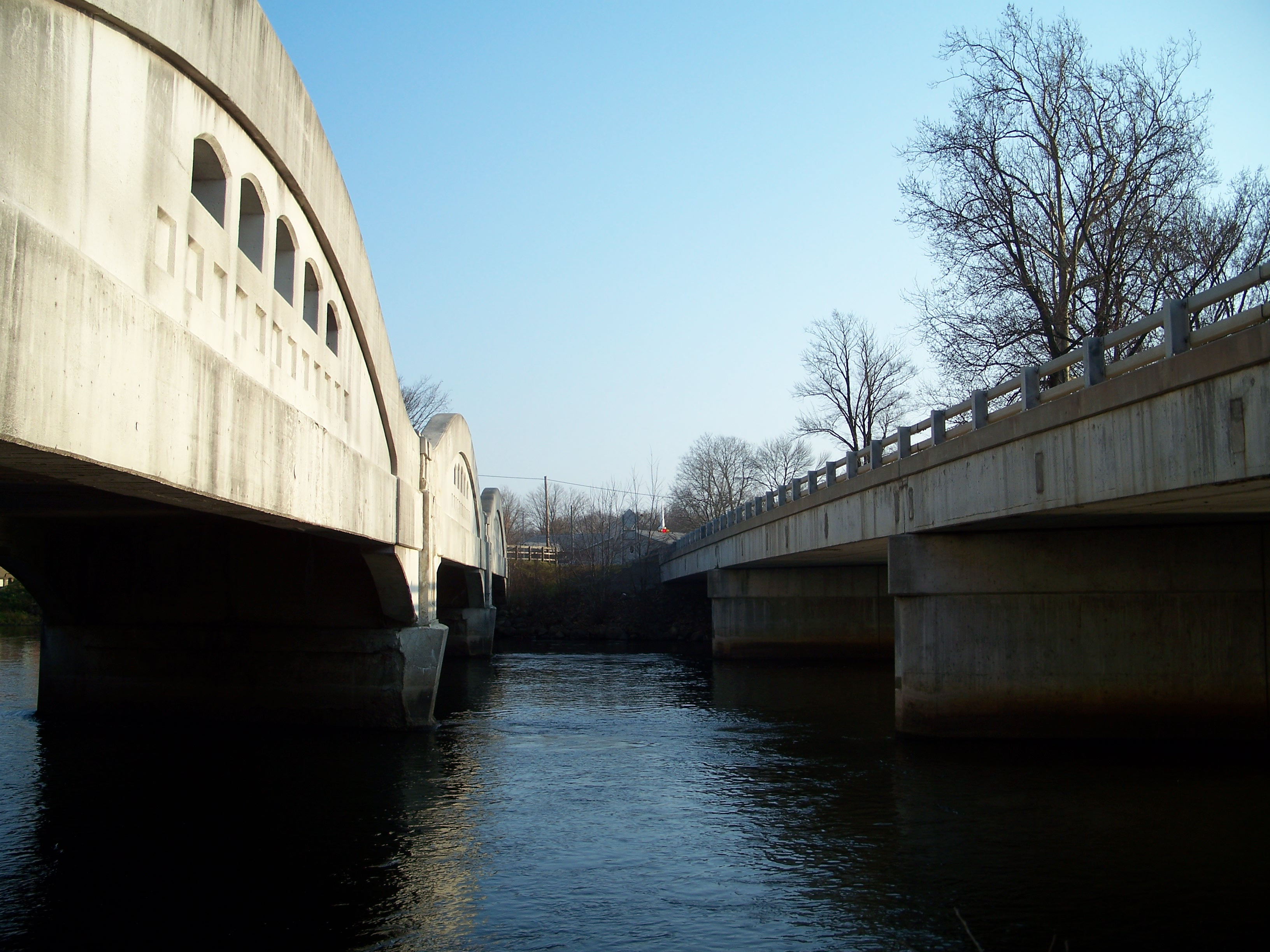 The US 12–St. Joseph River Bridge (left) and the replacement bridge (right) in Mottvile, Michigan.